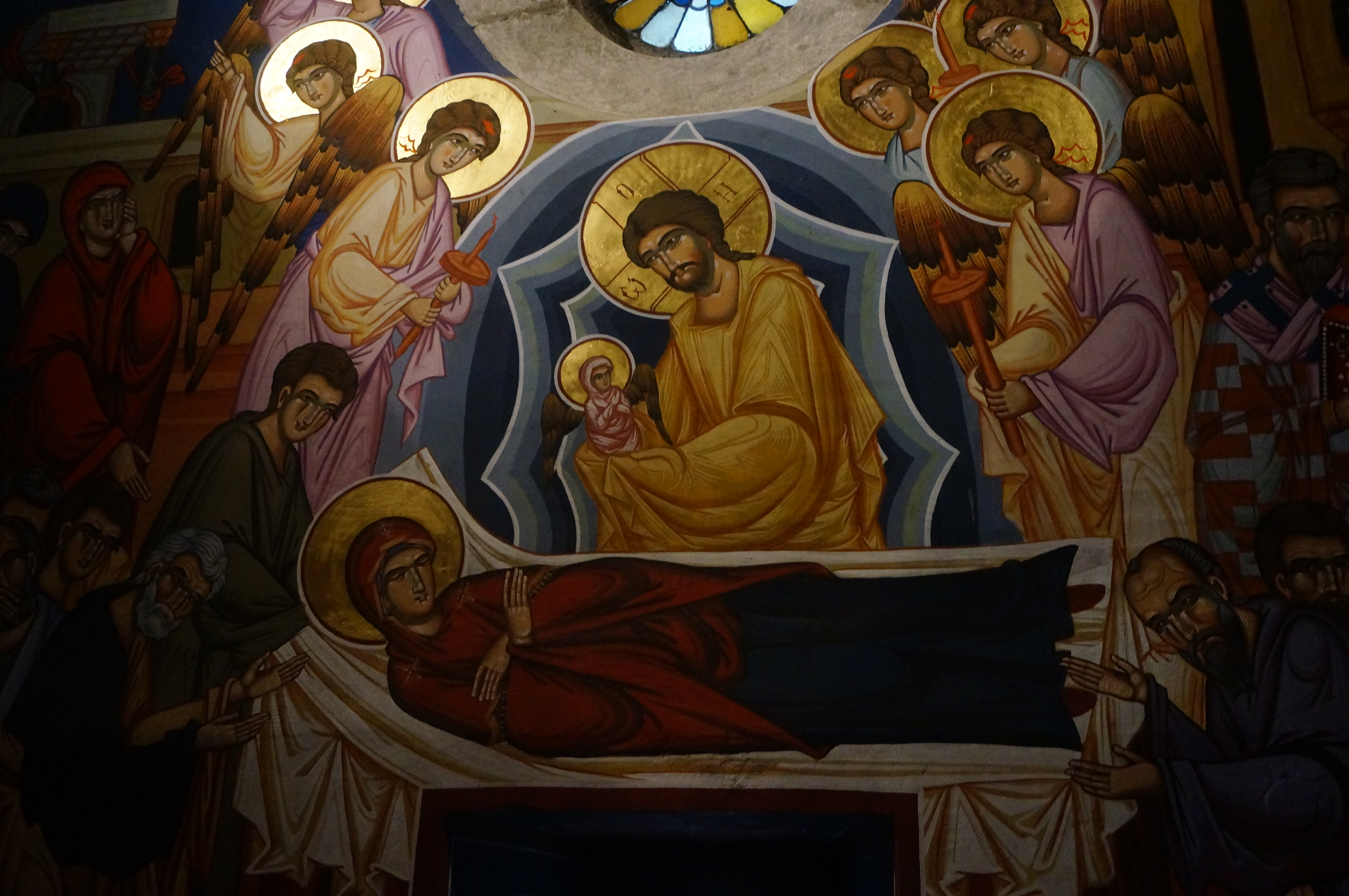 Krka Monastery, Croatia. Church detail.